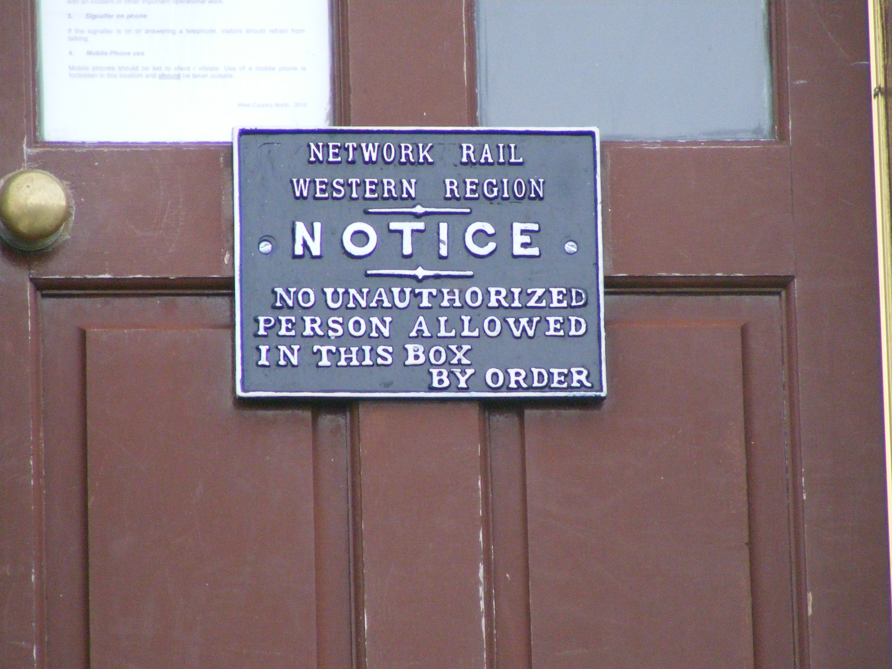 A sign showing the name Network Rail on the signal box at Ledbury railway station, United Kingdom.